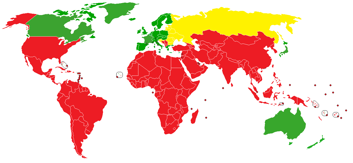 Green States = Annex I Countries fully committed (often referred to as Annex II countries) Yellow States = Committed within substantial freedom as to their commitments (So-called Countries with Economies in Transition (EIT) They are a segment of the Annex I group.). Red states = are not committed by the Kyoto Protokol (These are either states that have not signed or Non-annex states in the protocol).